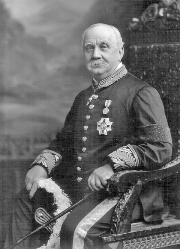 Sir Charles Bruce (1836-1920) 1 March 1901